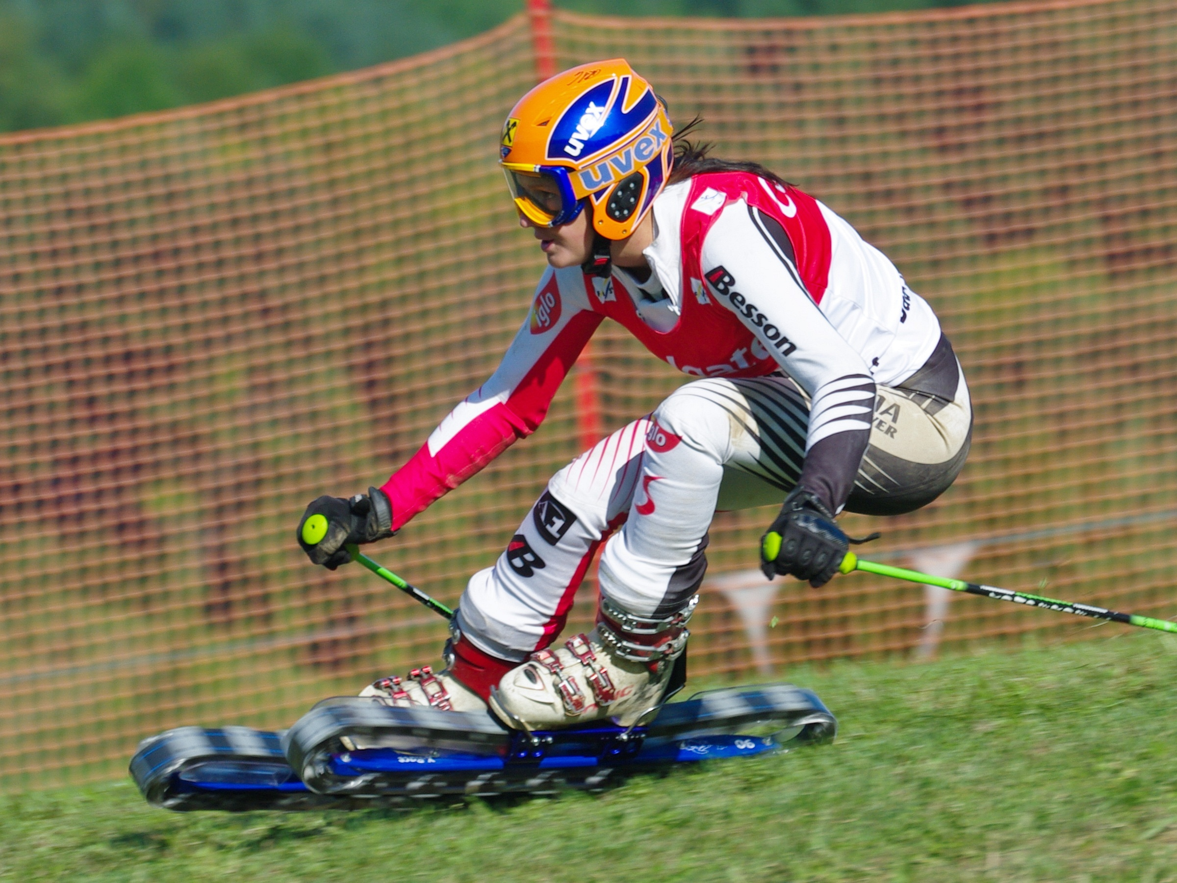 Austrian grass skier Nicole Gerlach in the Super-G run of the Super combined at the 2009 Grass Skiing World Championships in Rettenbach, Austria.